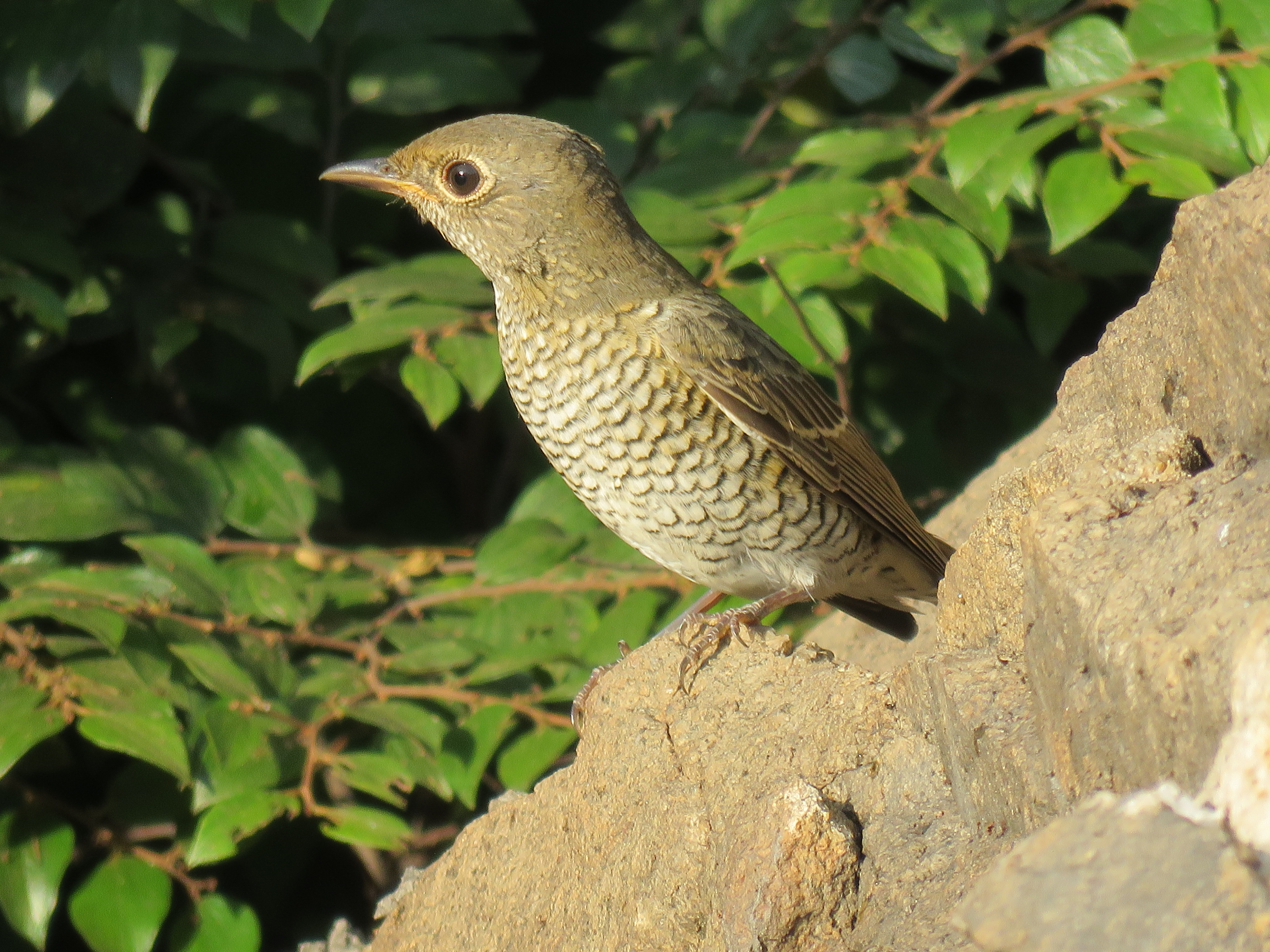 Blue-capped Rock Thrush Female